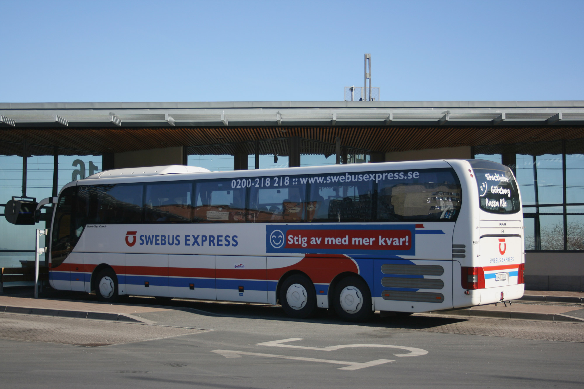 Swebus Express MAN Lion's Top Coach L coach (#6071) in Jönköping, Sweden.